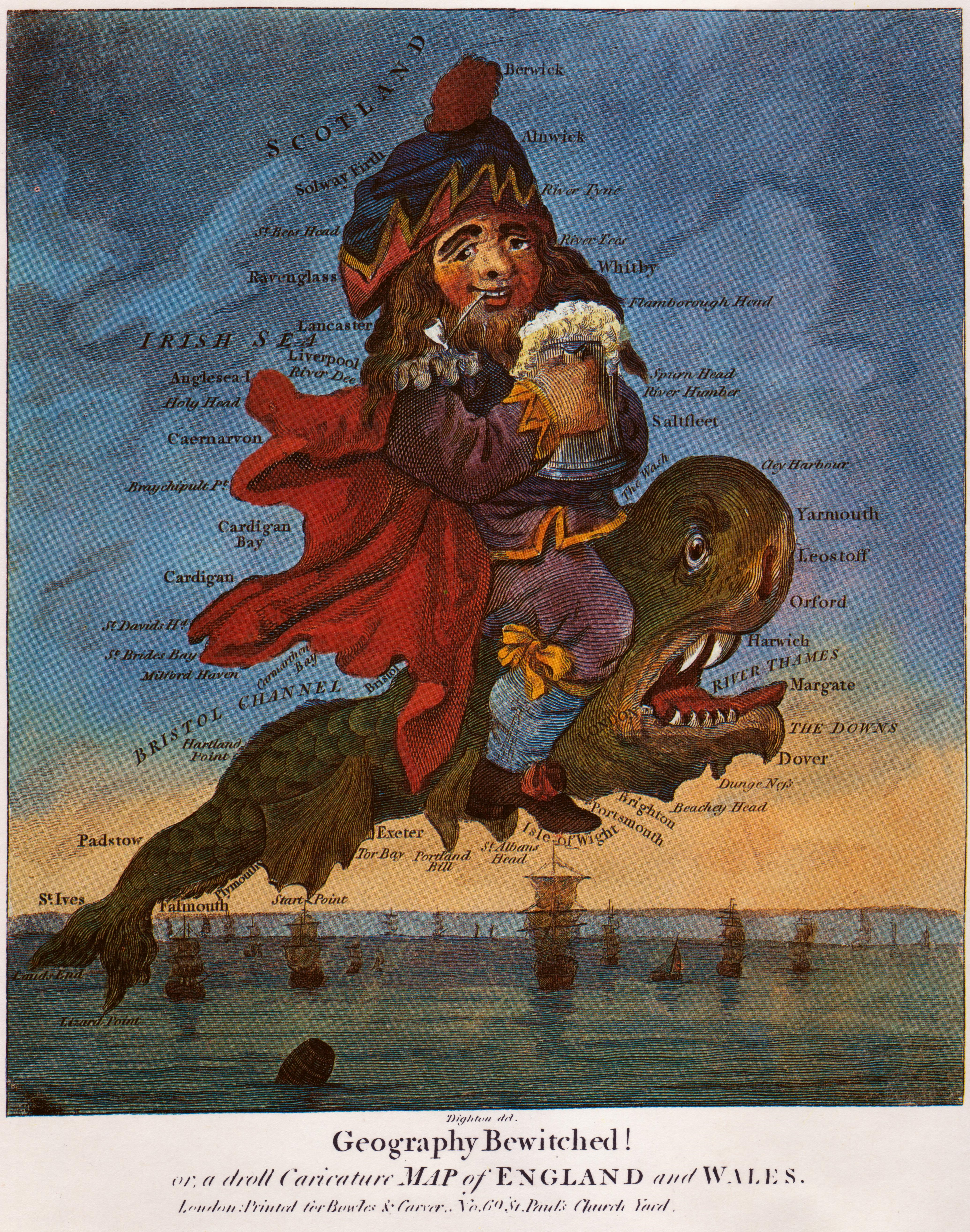 Geography Bewitched! or, a droll Caricature MAP of ENGLAND London: Printed for Bowles & Carver, No. 69 St Paul's Church Yard. Art by Robert Dighton (1752–1814) Alternative namesRobert Dighton the Elder; Robert, the elder Dighton; Robert, I DightonDescriptionEnglish portrait painter, printmaker and caricaturistDate of birth/death17521812Location of birth/deathLondonLondonWork locationLondon (1767 - 1814)Authority control : Q7343545 VIAF: 95720413 ULAN: 500006487 LCCN: n82078183 RKD: 22796 WorldCat , printed circa 1795[1]